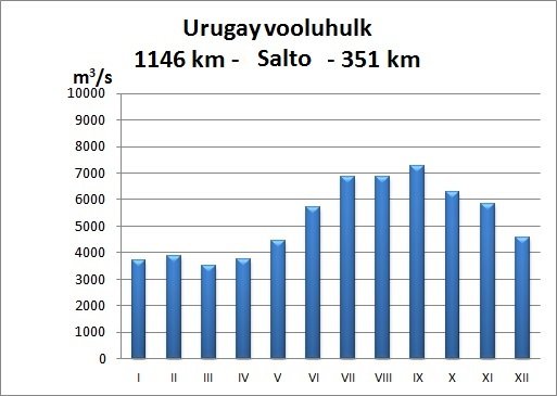 Uruguay River, mean discharge in Salto